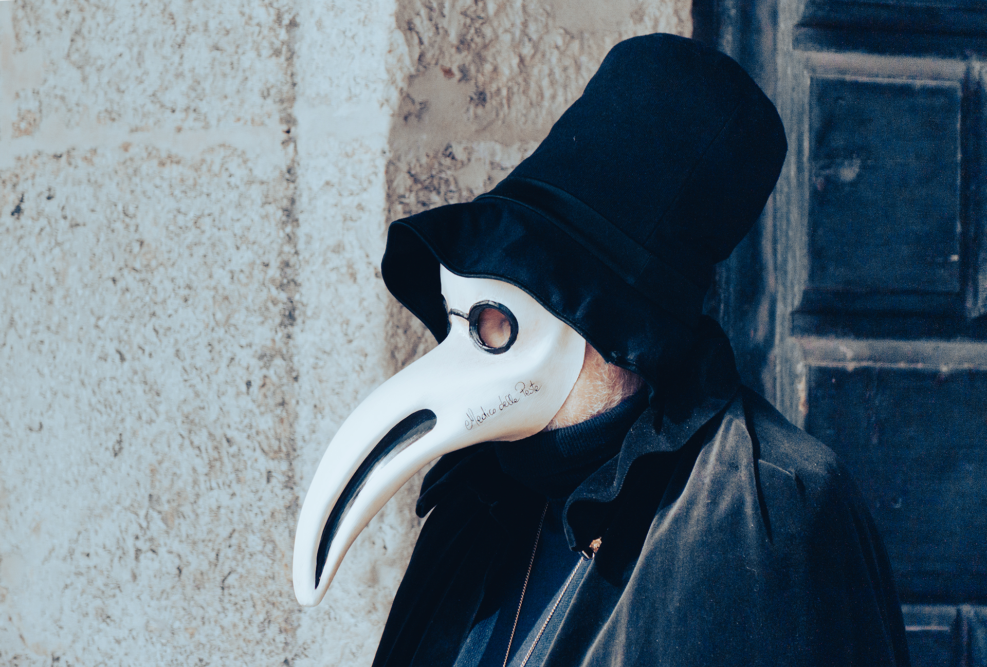 the mask that the doctors who visited the affected by the pest in the middle age in Venice used to wear in order to protect themselves